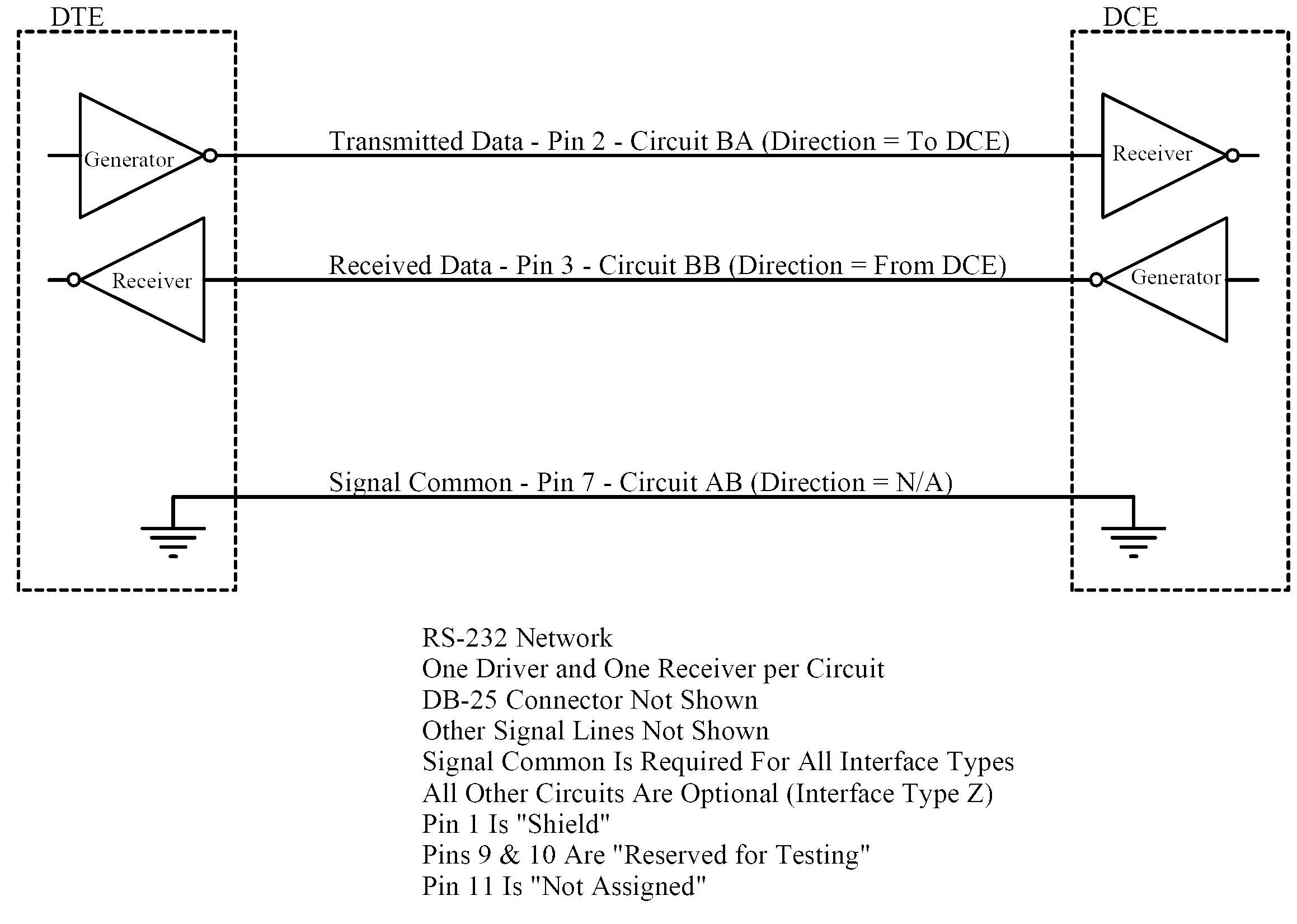 RS-232 network. One driver and one receiver per circuit. Signal Common is required for all interface types. Only Tx Data and Rx Data are shown. The DB-25 connector is not shown.